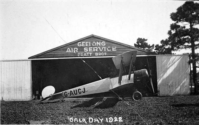 A BIPLANE OUTSIDE THE HANGER OF THE PRATT BROS.